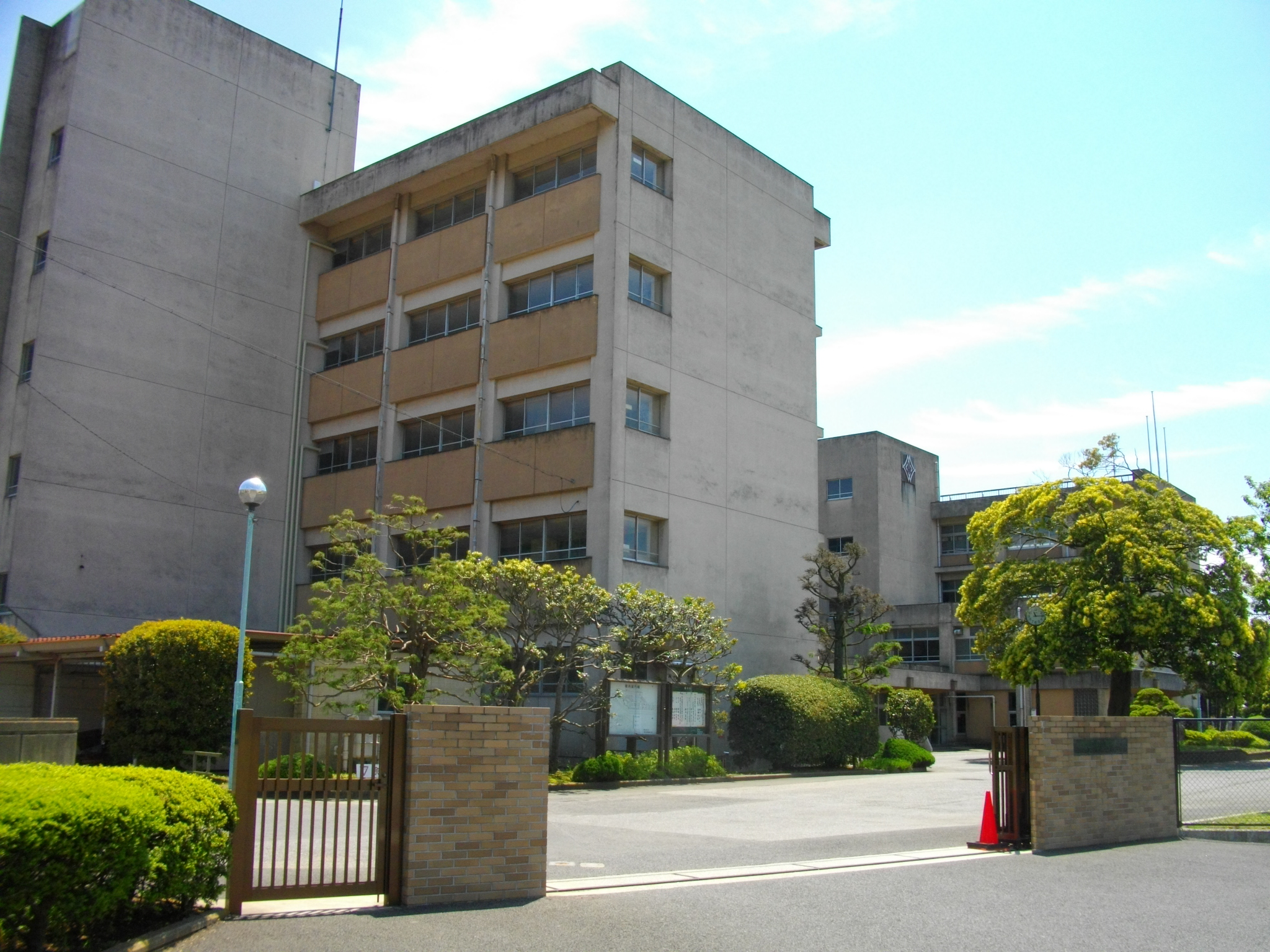 Sodegaura High School